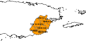 Eleutherodactylus cooki habitat area.